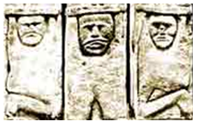 Triglav as depicted on Zbruch idol.